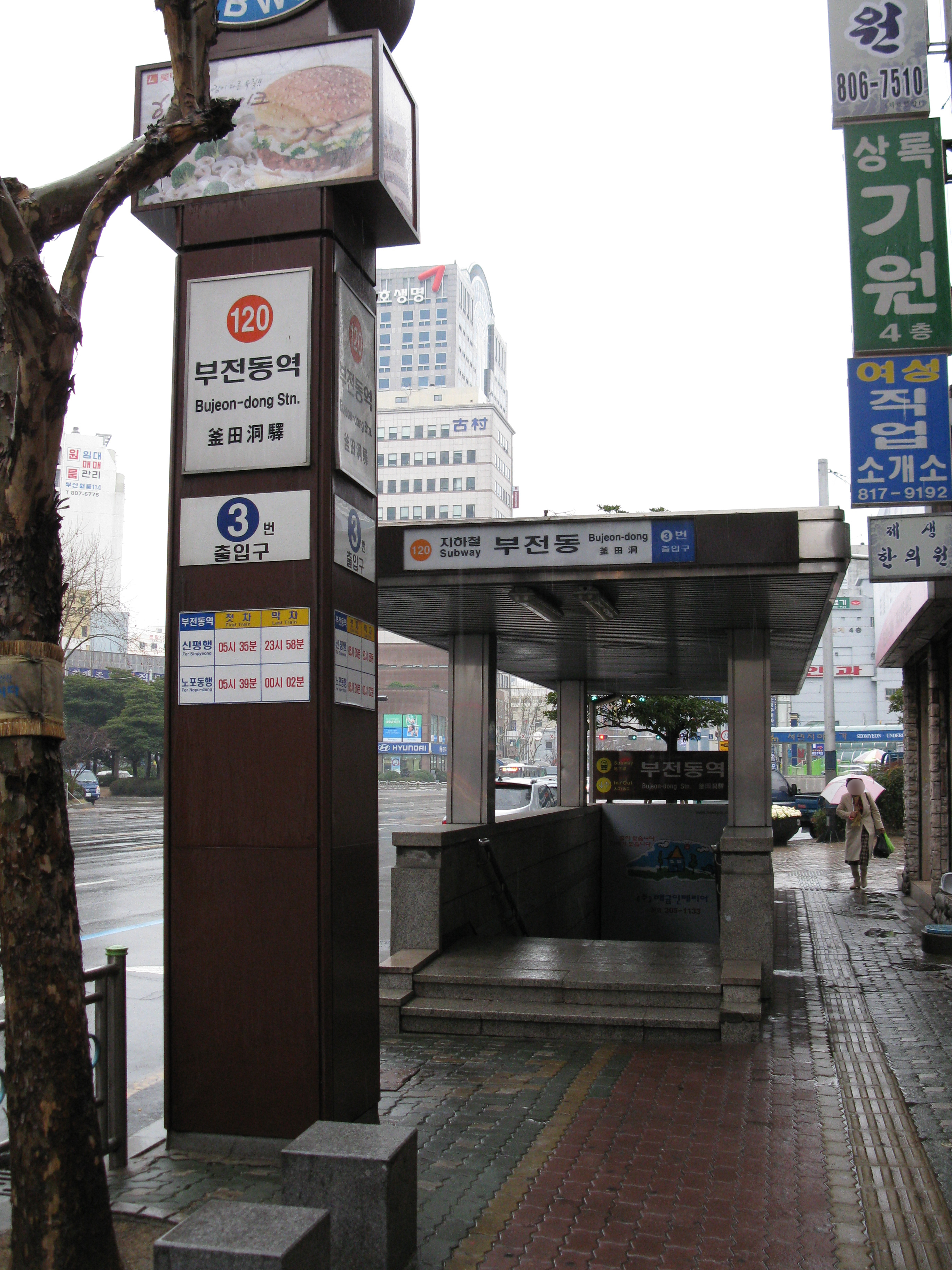 The no.3 entrance to Bujeon-dong Station on Busan Subway Line 1 in Busanjin-gu, Busan city, Republic of Korea(South Korea)